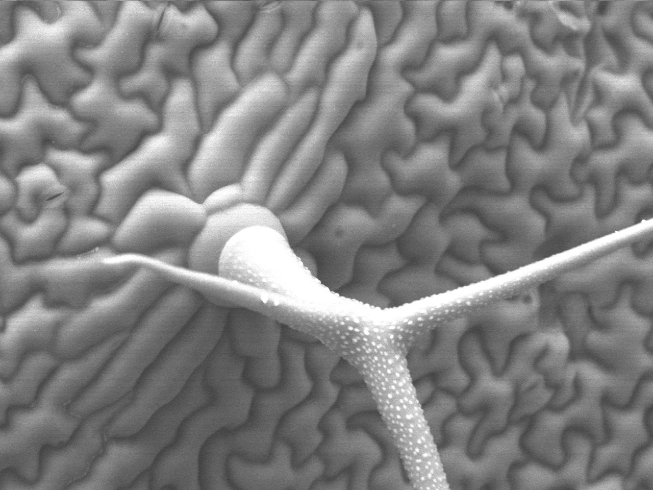 Epiderm of a leaf of Arabidopsis thaliana seen by cryo-scanning electron microscopy. Remark the beautiful trichome.